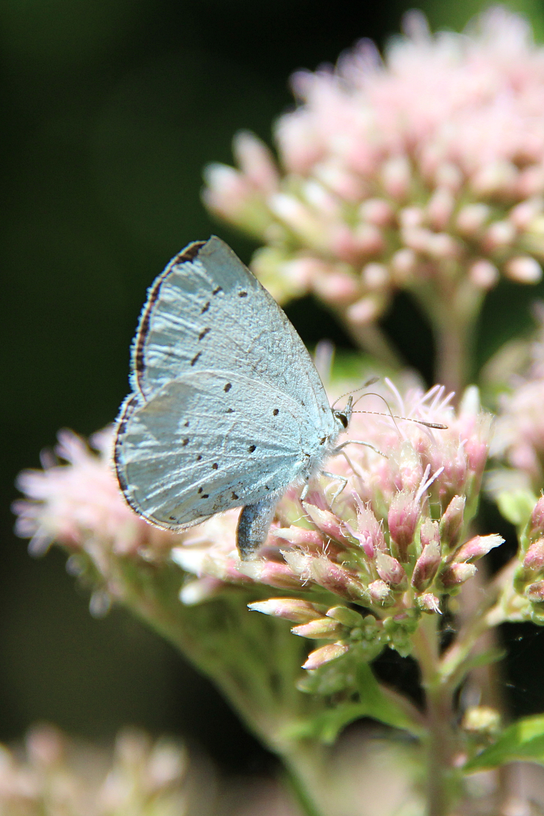 Holly Blue, Celastrina argiolus - Havré (Belgium).